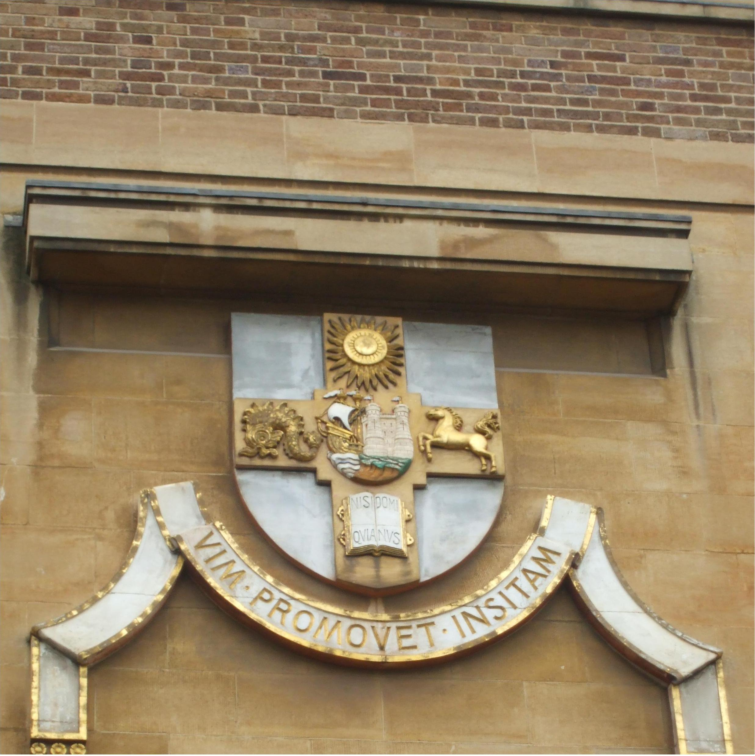 University of Bristol logo on a building.